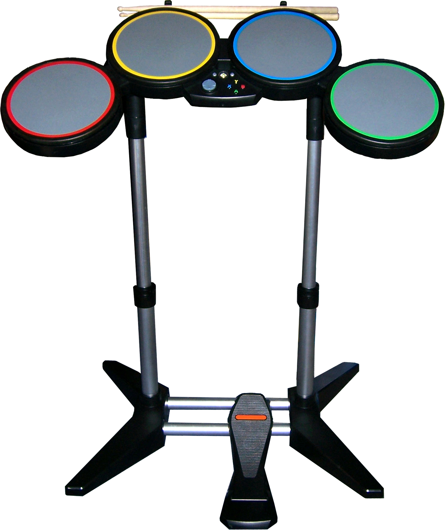 Self-taken photo of Rock Band drumset controller. I release it into the public domain.